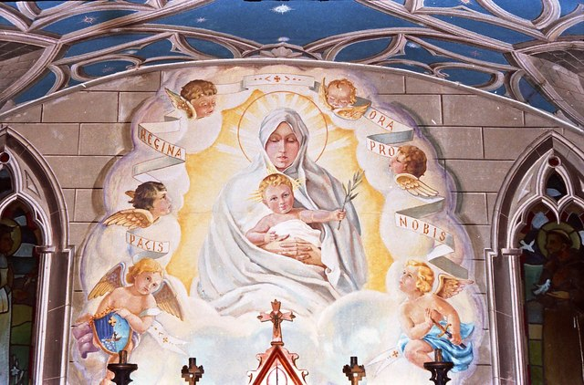 The altar art of the Italian chapel of Orkney To paint brickwork where no brickwork exists; to establish grandeur in a Nissen hut; to produce something positive when your life is at its lowest ebb; the Italian prisoners of war achieved it all here in Orkney.